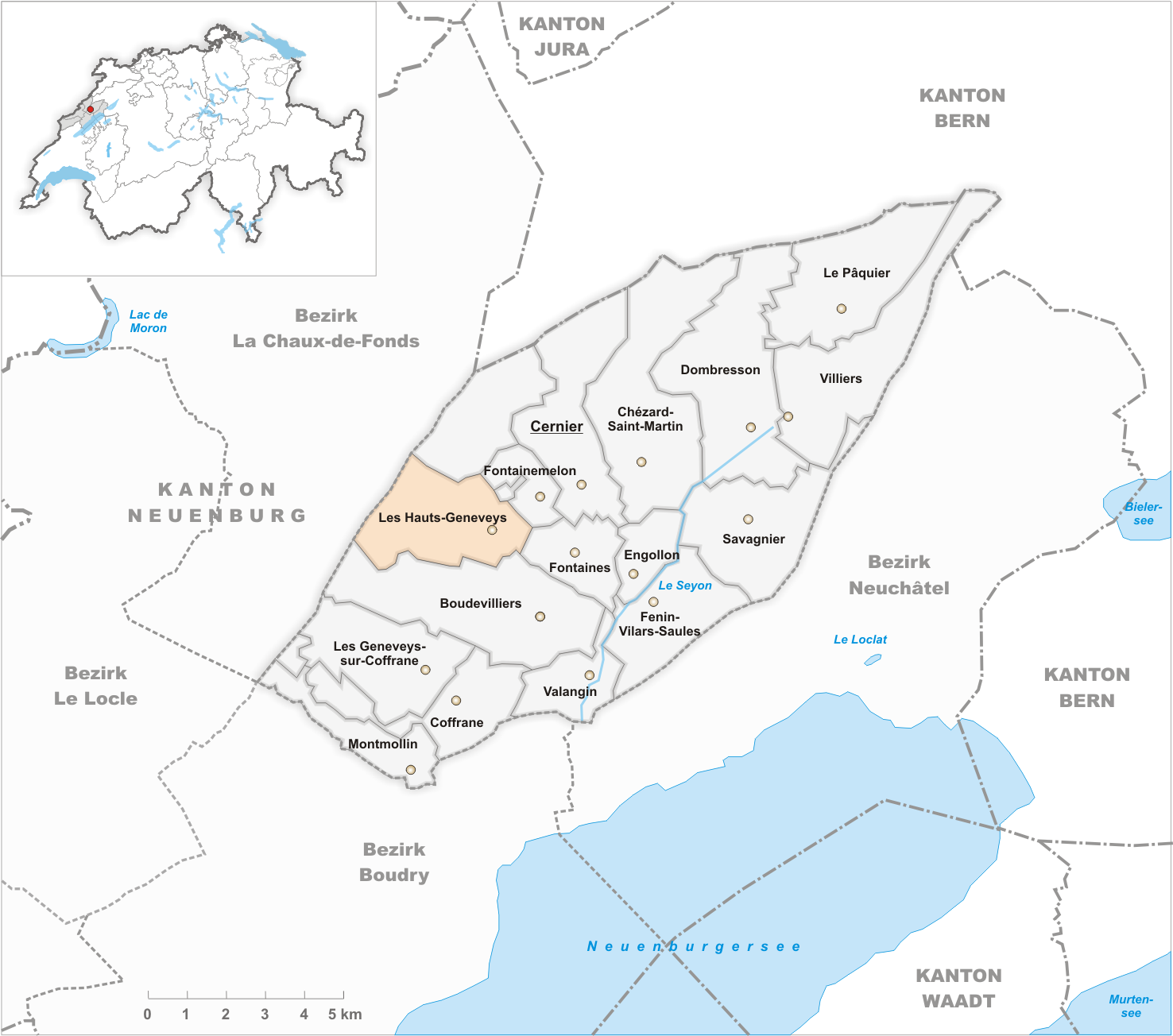 Municipality Les Hauts-Geneveys